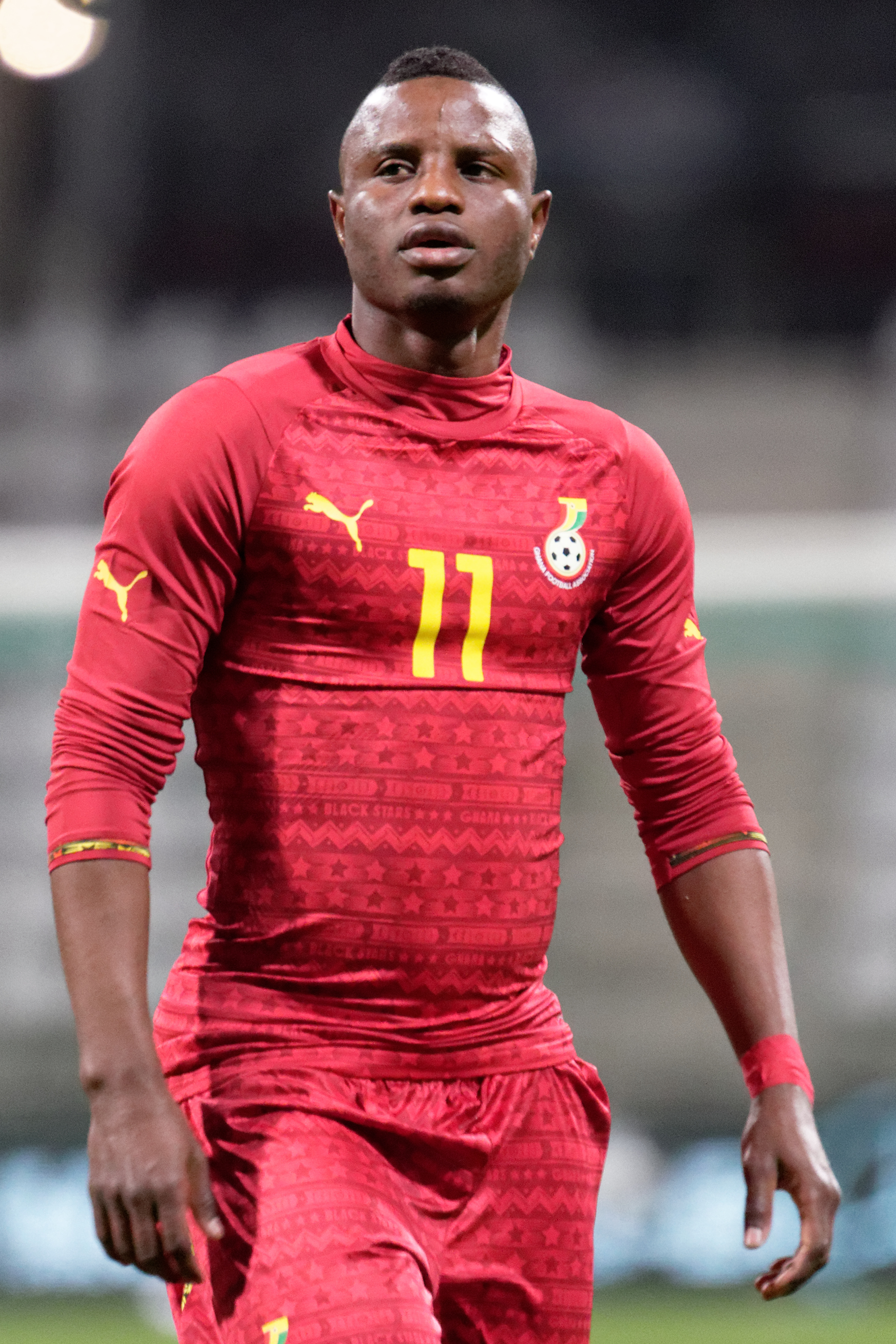 Mali vs Ghana, exhibition game at Paris, 31st March 2015.